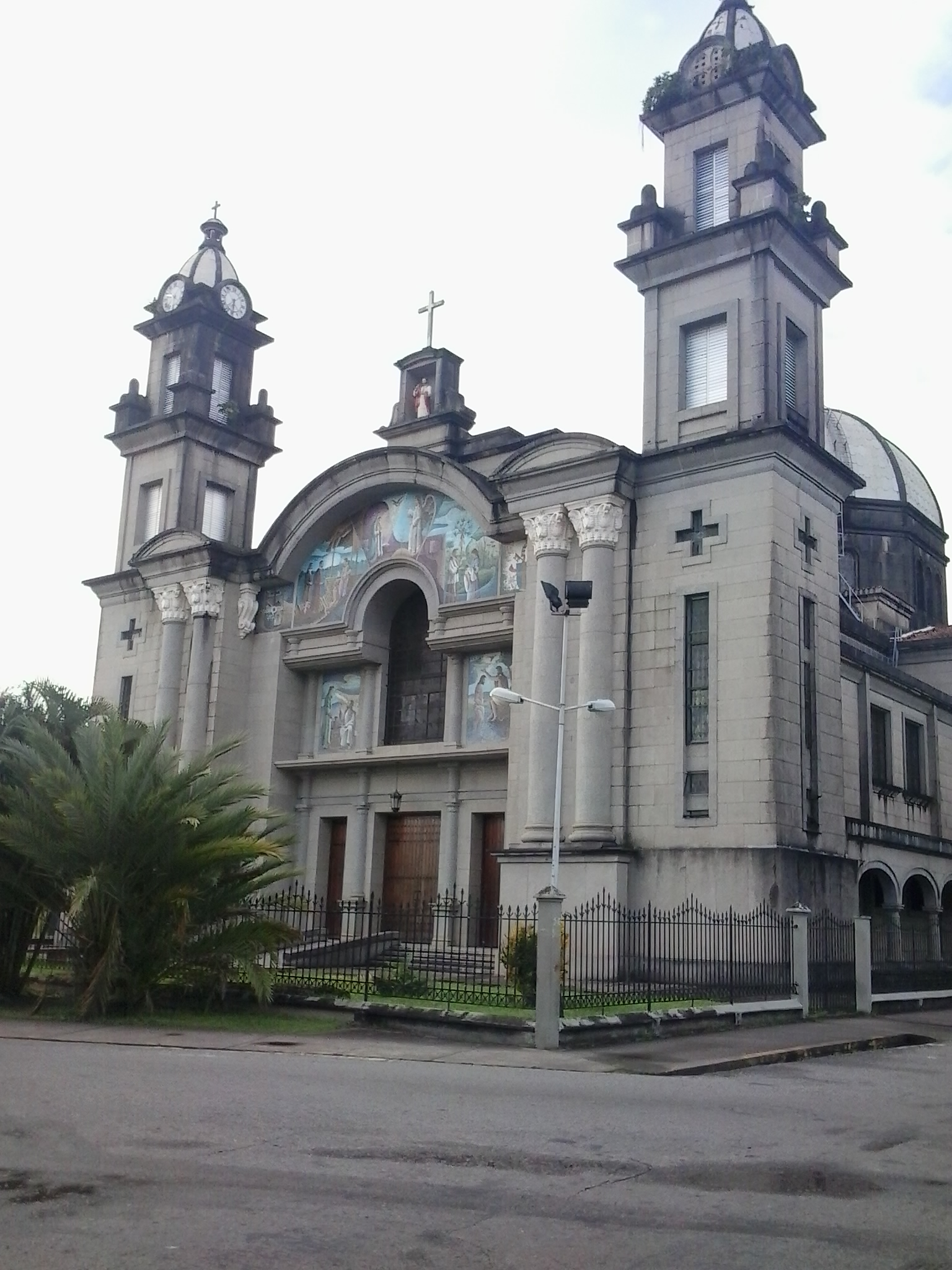 Catedral de Tucupita